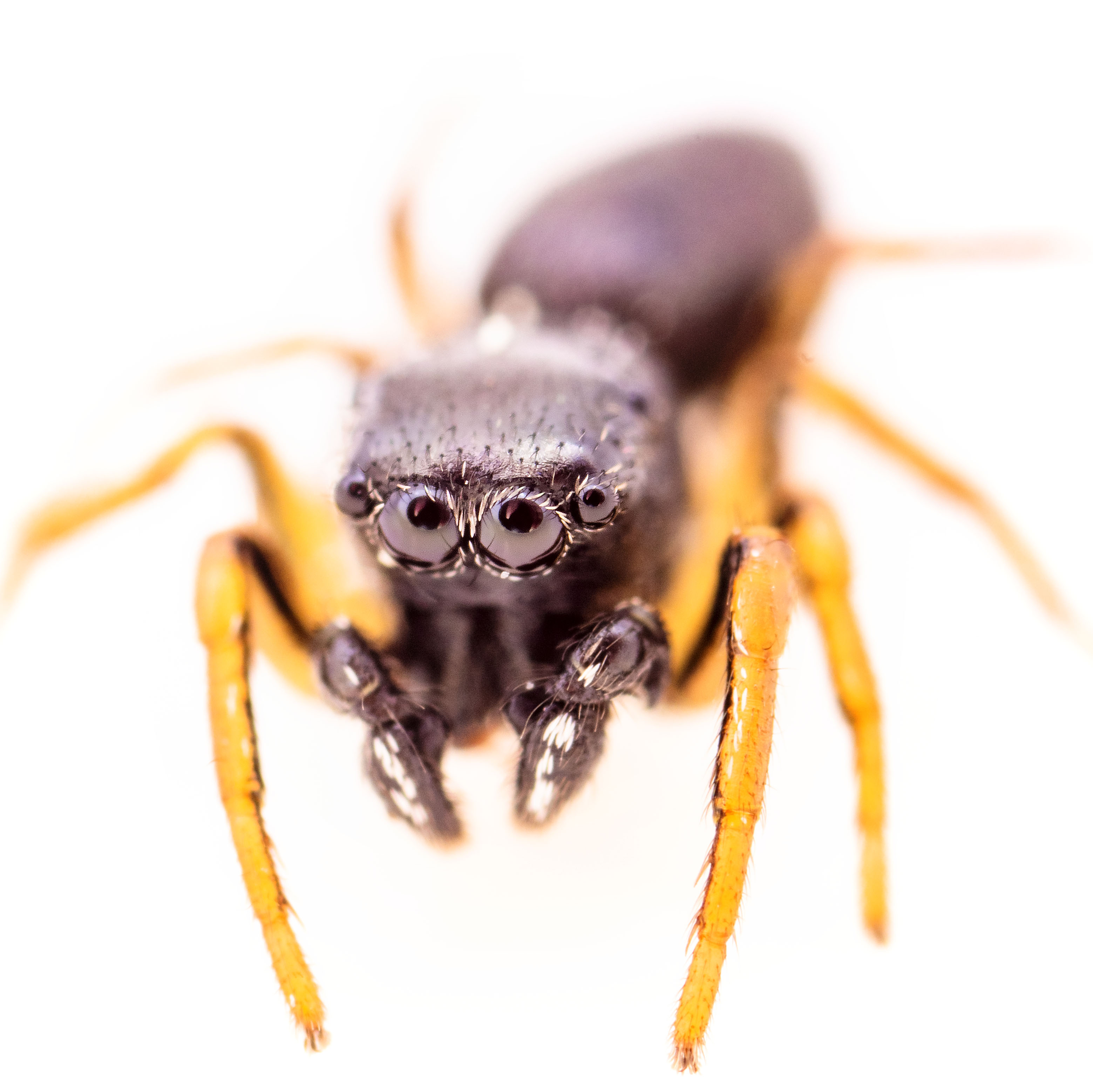 Heliophanus camtschadalicus spider, male. Found in Hankasalmi, Finland, in July 2020.